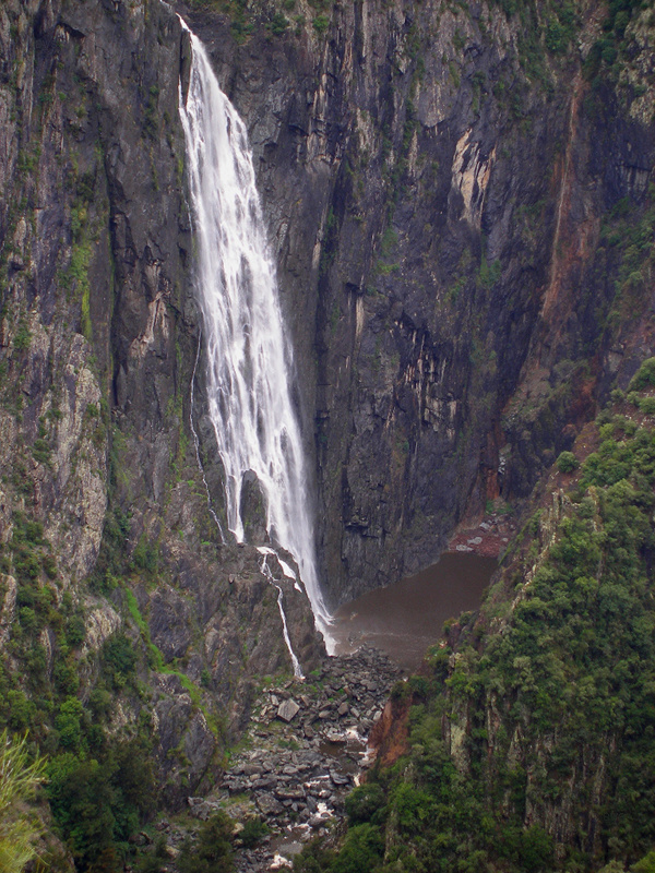 Oxley Wild Rivers National Park, New South Wales, Australia, Wollomombi Falls